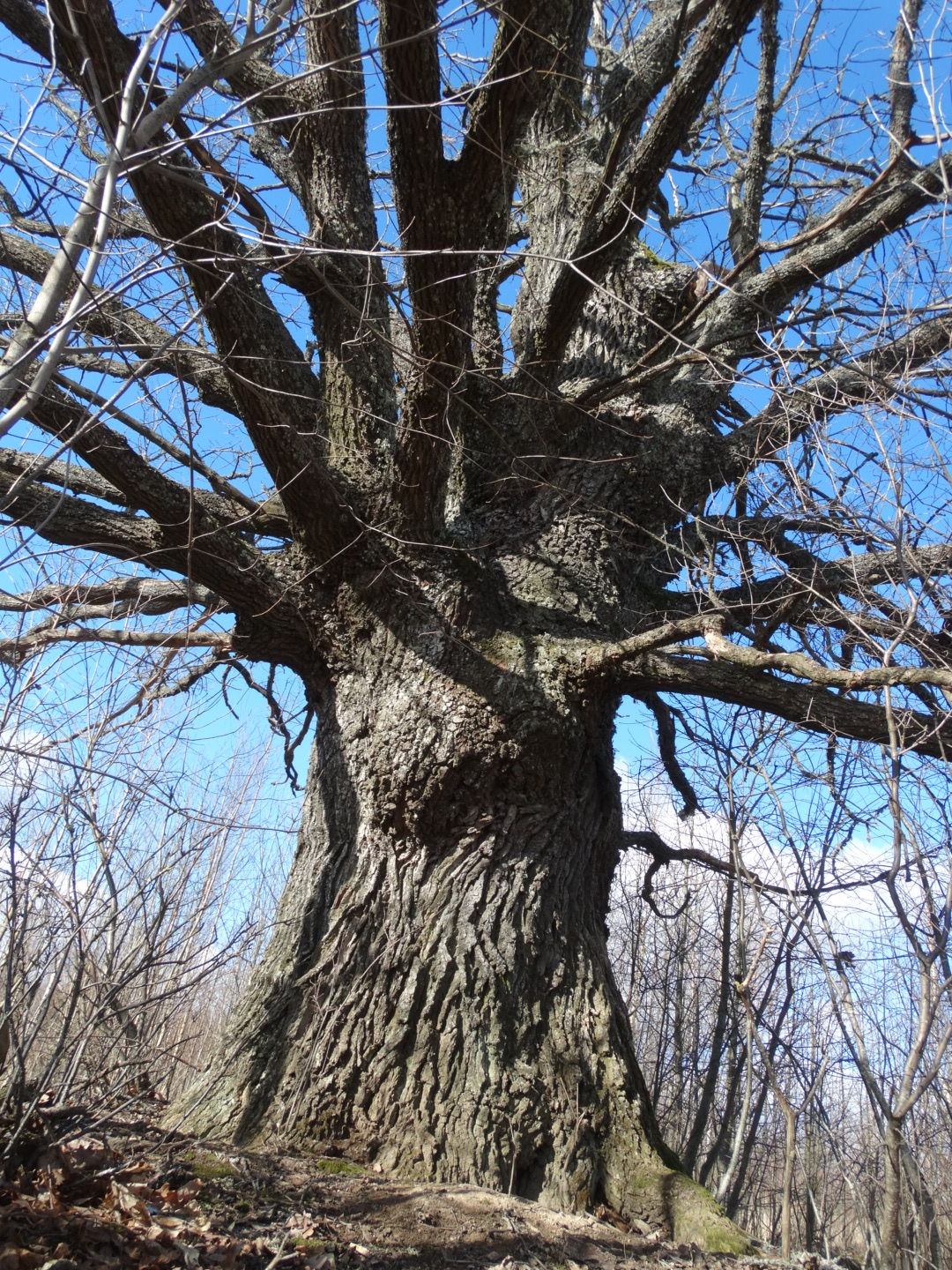 Oak (2nd) in Mukuliai, Zarasai district, Lithuania